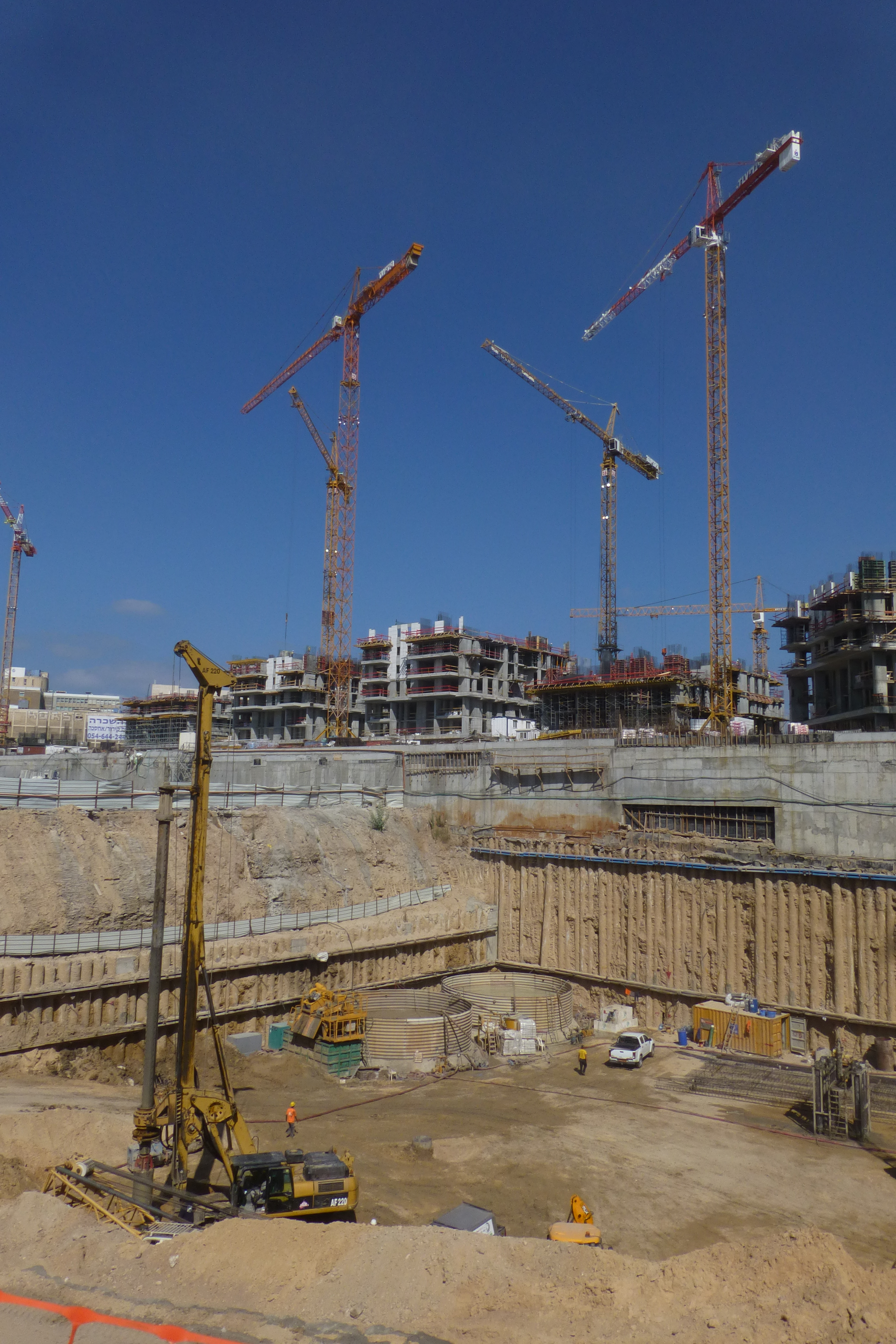 Begin Road, Tel Aviv-Yafo